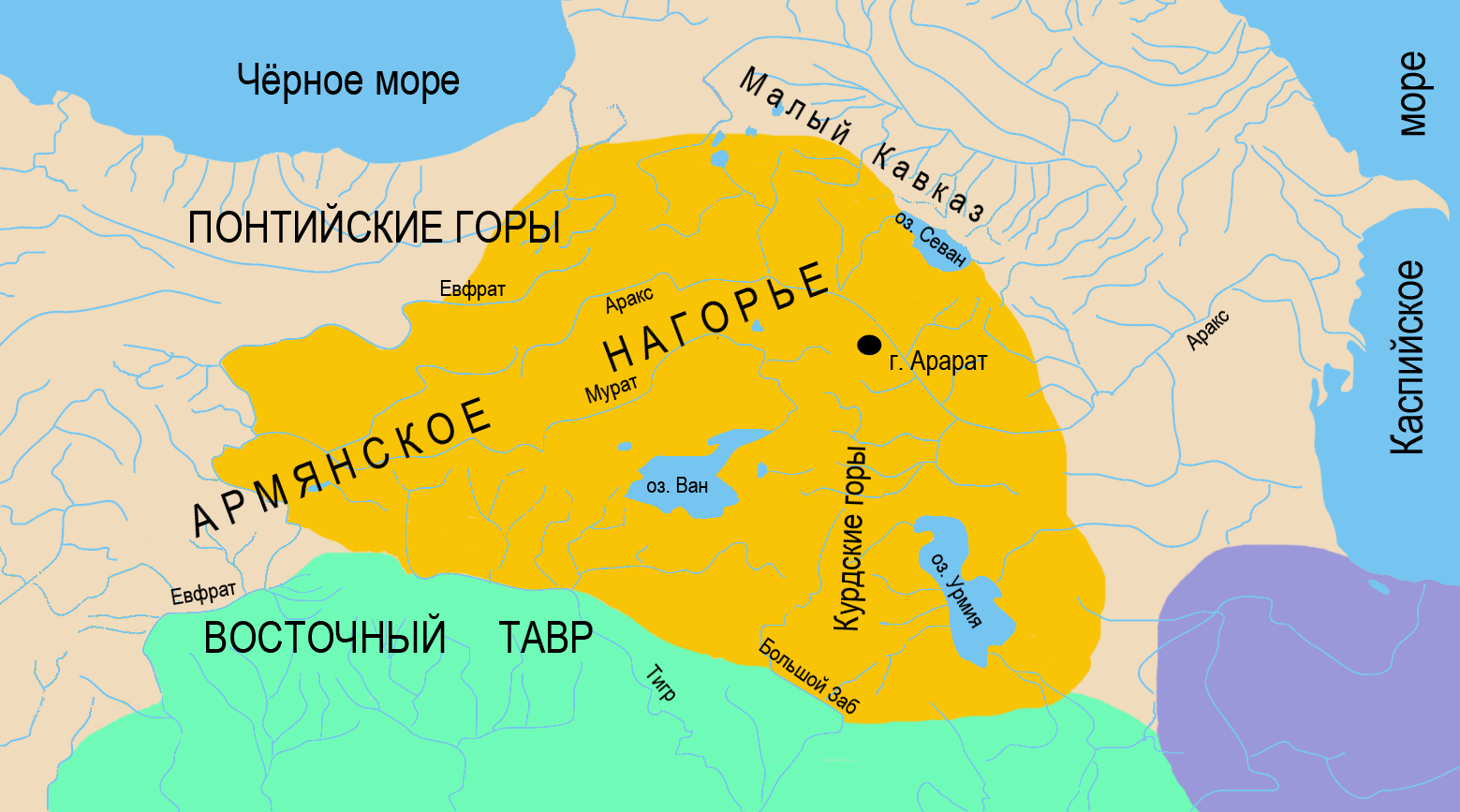 Rivers, Mountains & Lakes on Urartu map